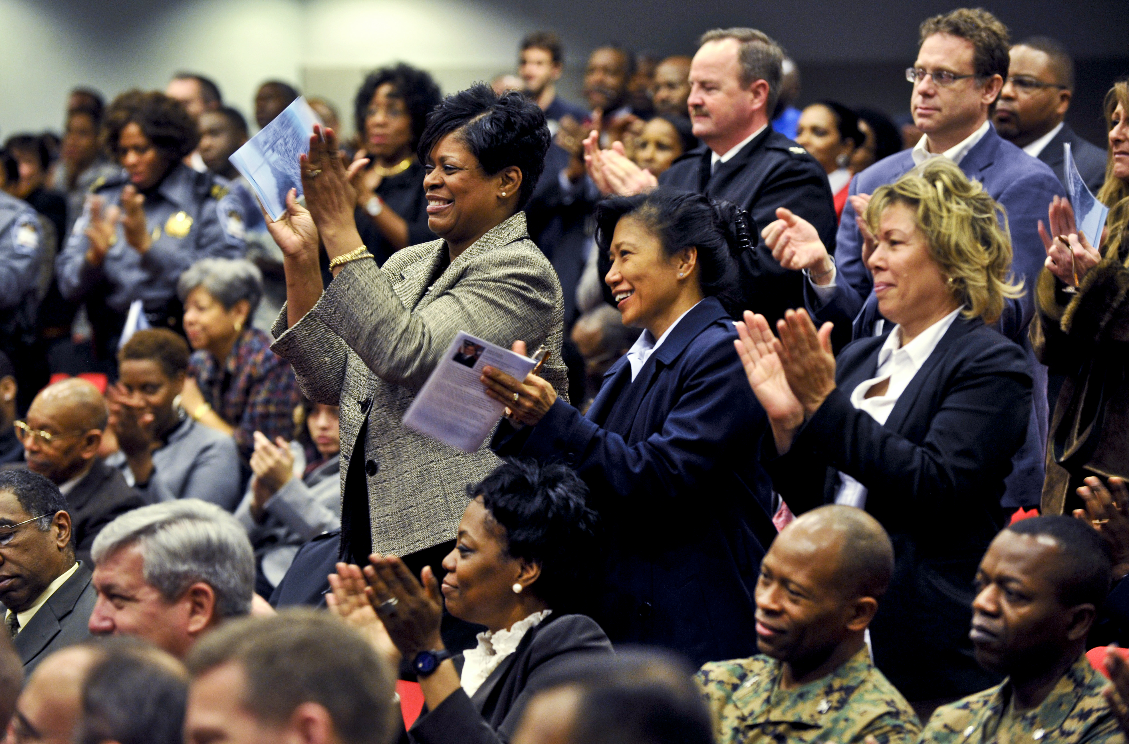 Audience members deliver a standing ovation as keynote speaker Rev. Samuel "Billy" Kyles completes his address during the 27th annual ceremony to honor Martin Luther King Jr. at the Pentagon, Jan. 26, 2012.